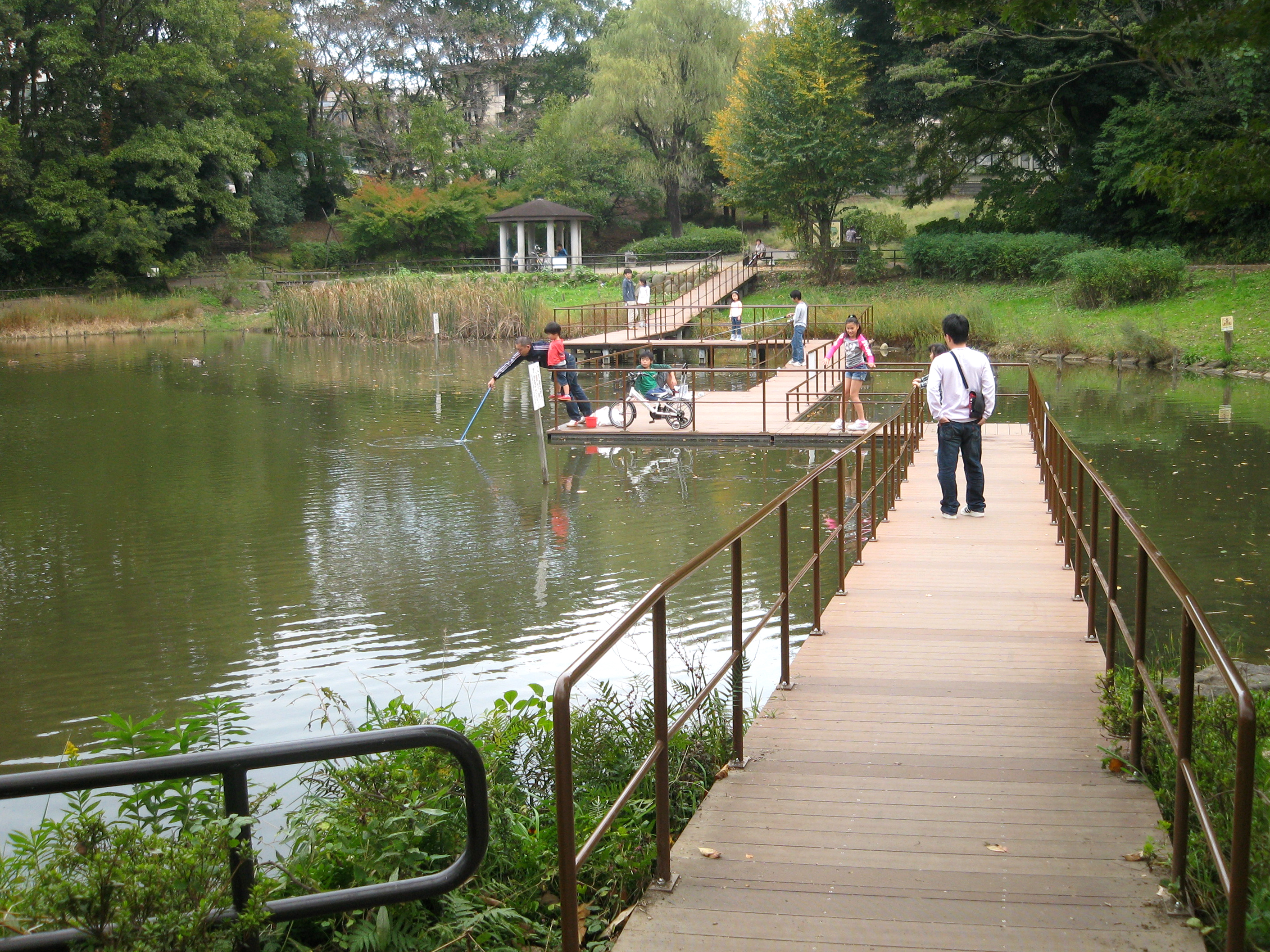 Moegino Park in Aoba-ku, Yokohama, Japan.